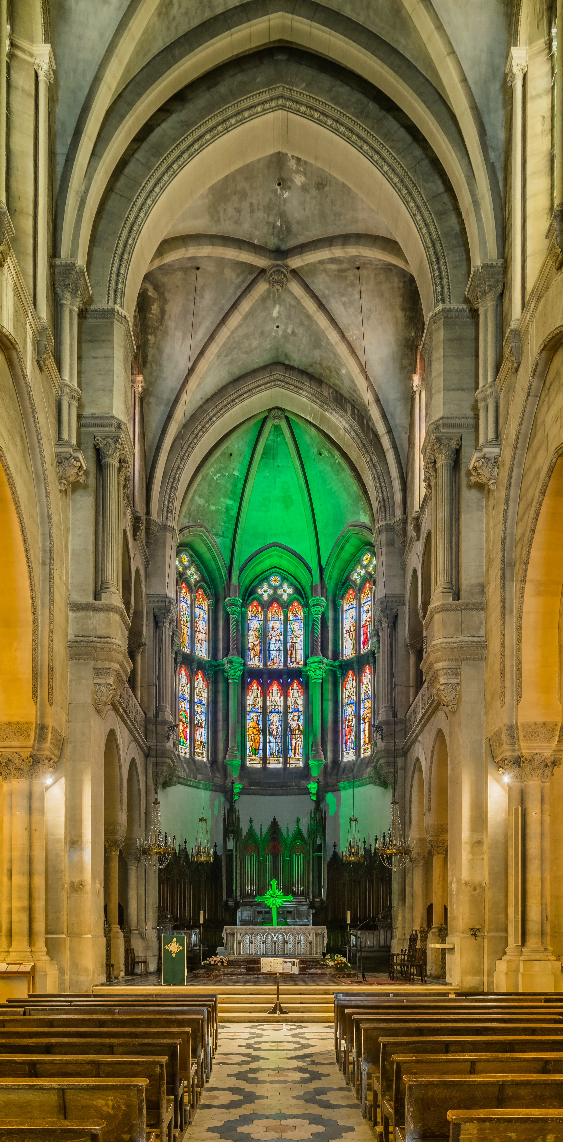 Interior of the Saint Perpetua and Felicitas church in Nîmes, Gard, France